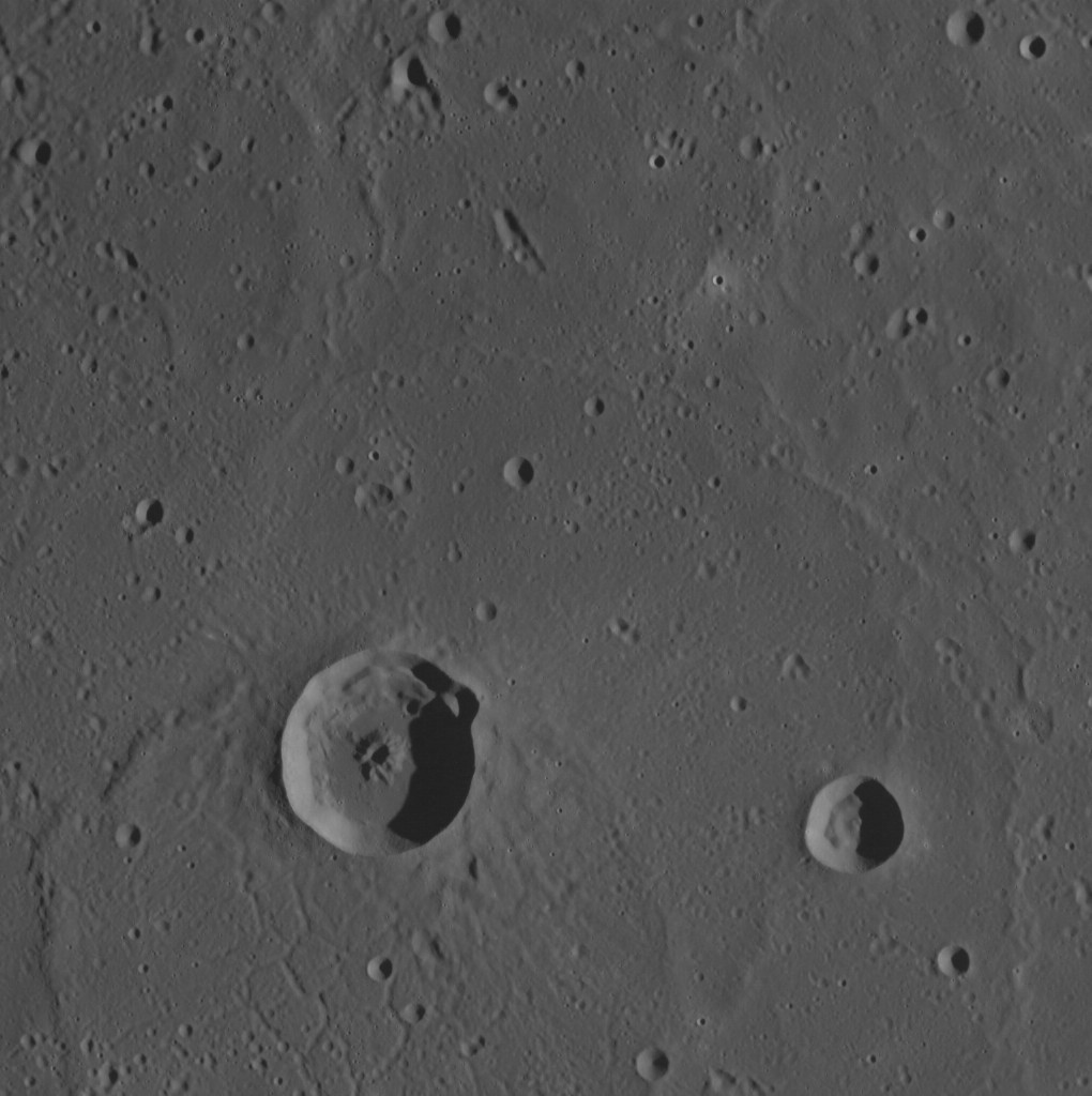 Egonu (left) and Monk (right) craters on Mercury. MESSENGER Wide Angle Camera. North is in upper left. Emission Angle: 0.25 Incidence Angle: 74.5 Latitude: 67.3 Longitude: 63.5 Phase Angle: 74.6